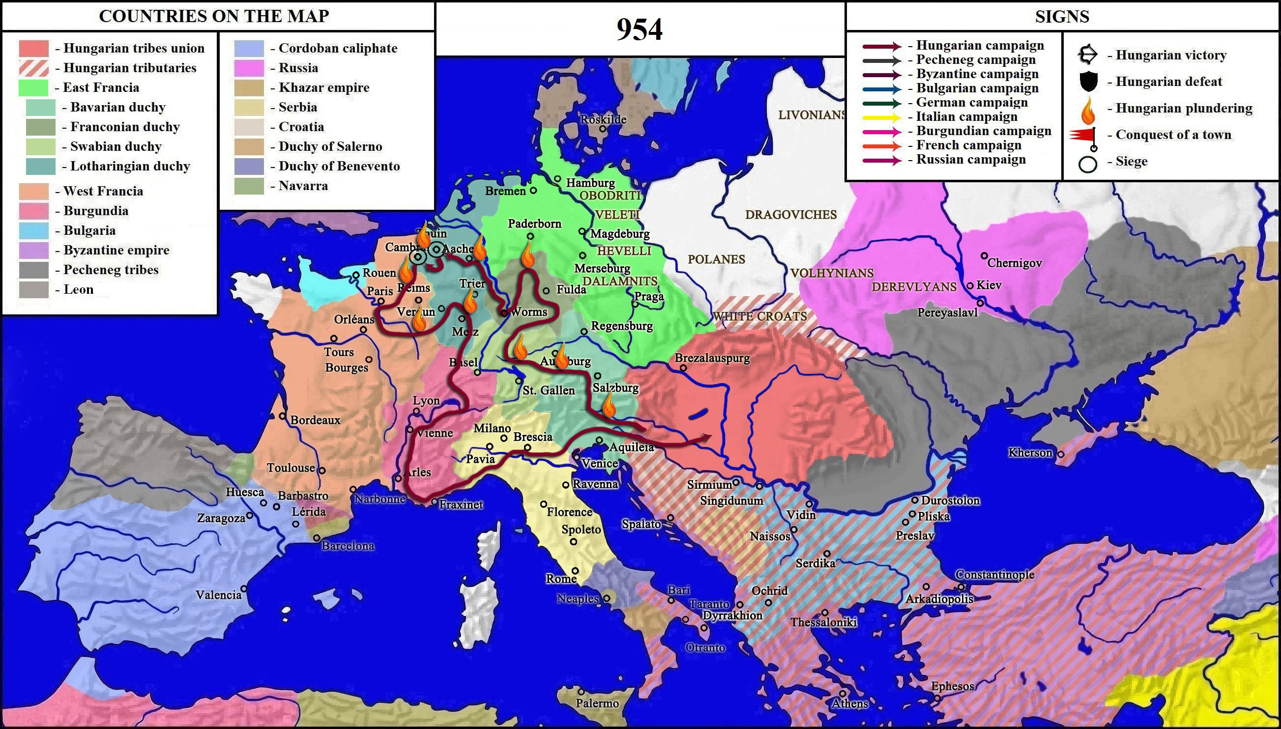 The Hungarian campaign in Europe of 954. The last successful Hungarian campaign in Europe, led by Bulcsúç